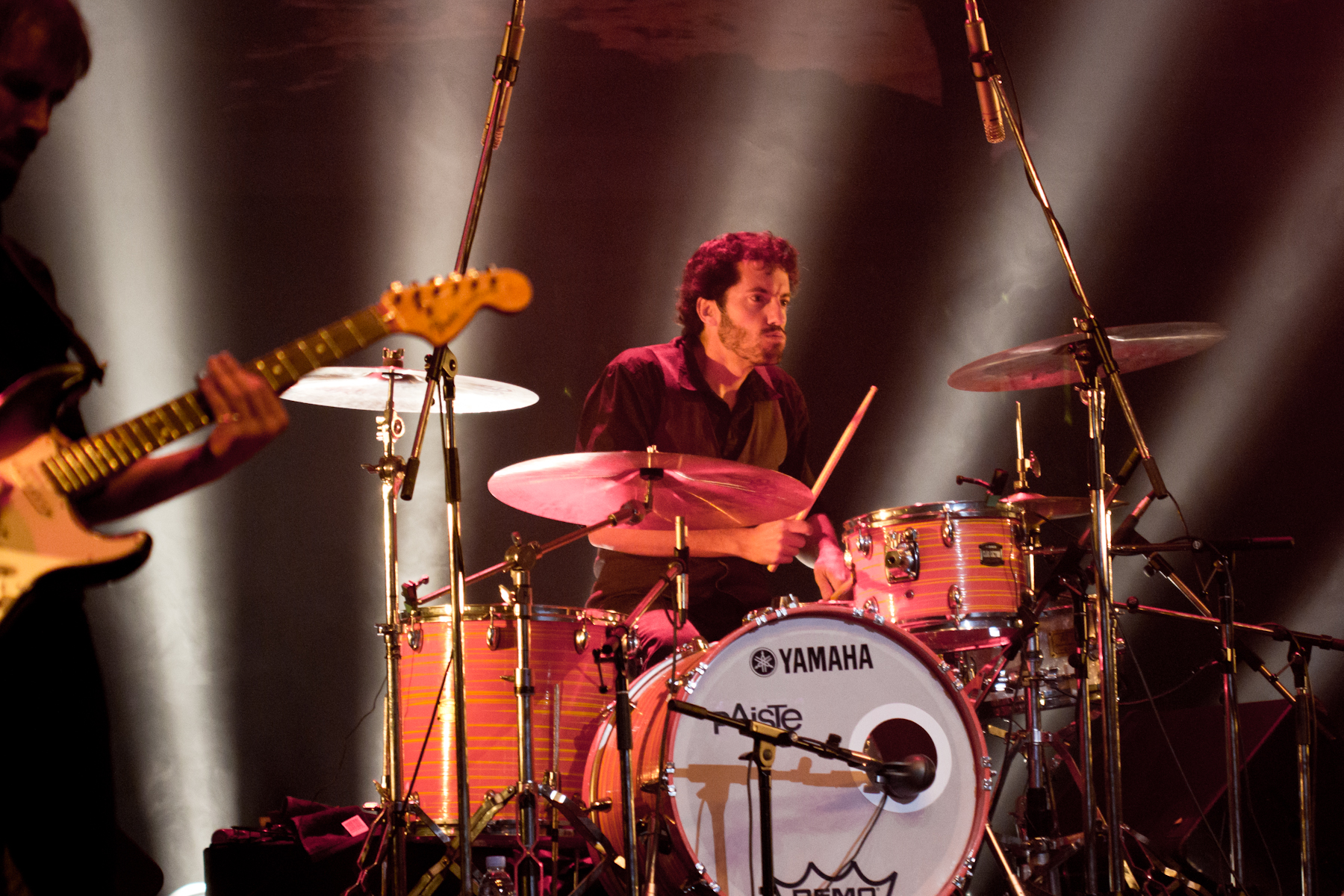 Spanish rock band M Clan live in May 2013.